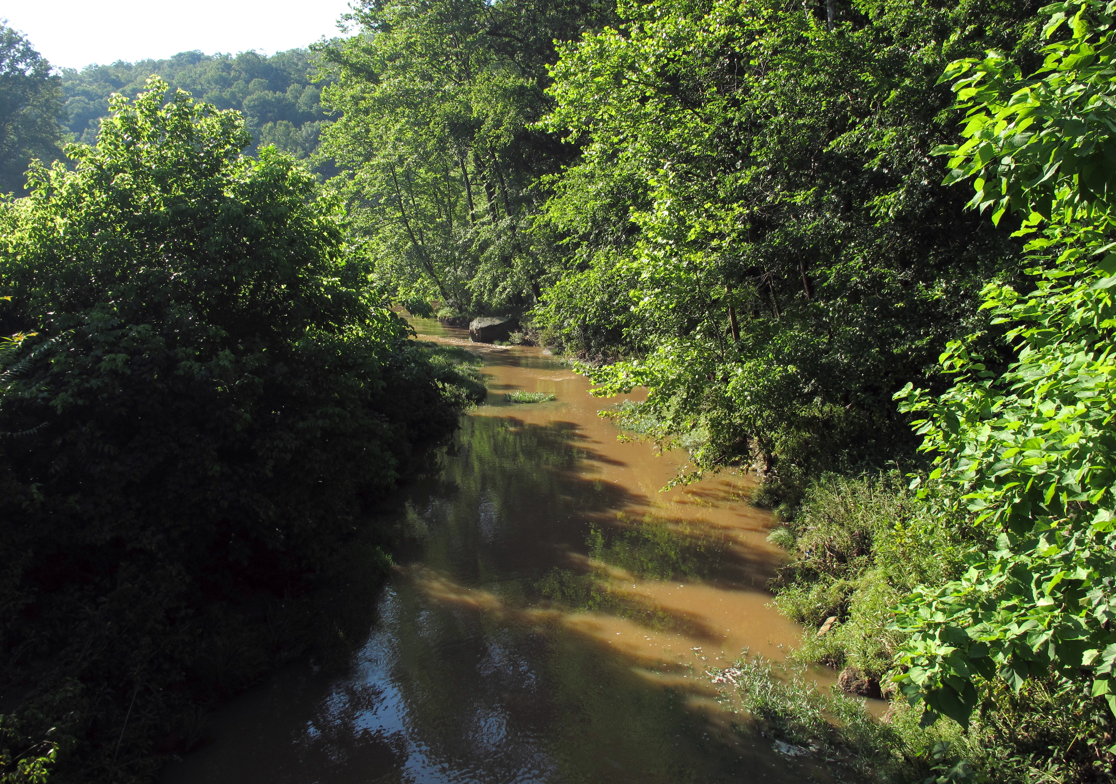 Flint Run as viewed downstream from Big Flint Road (County Road 3) in Doddridge County, West Virginia